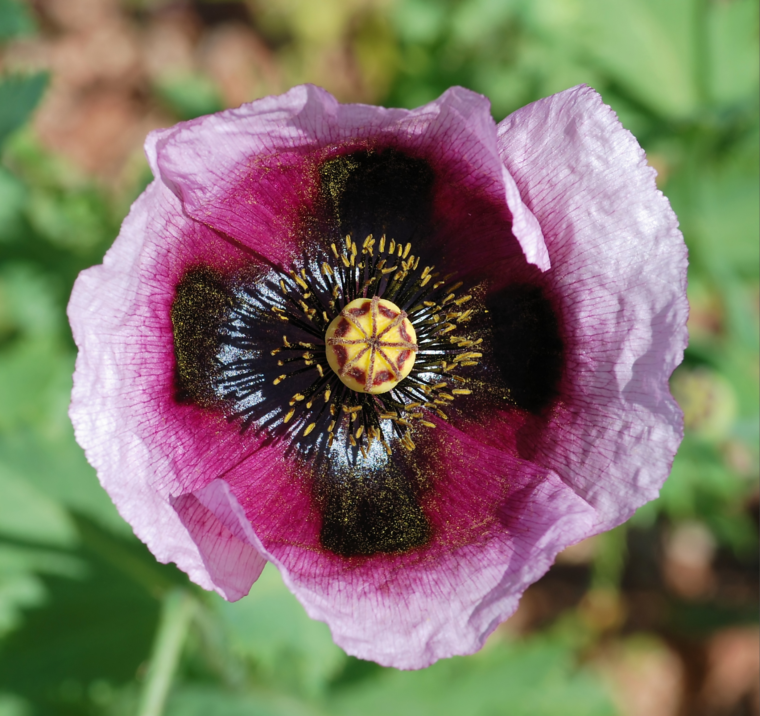 Flower of Poppy (Papaver setigerum)